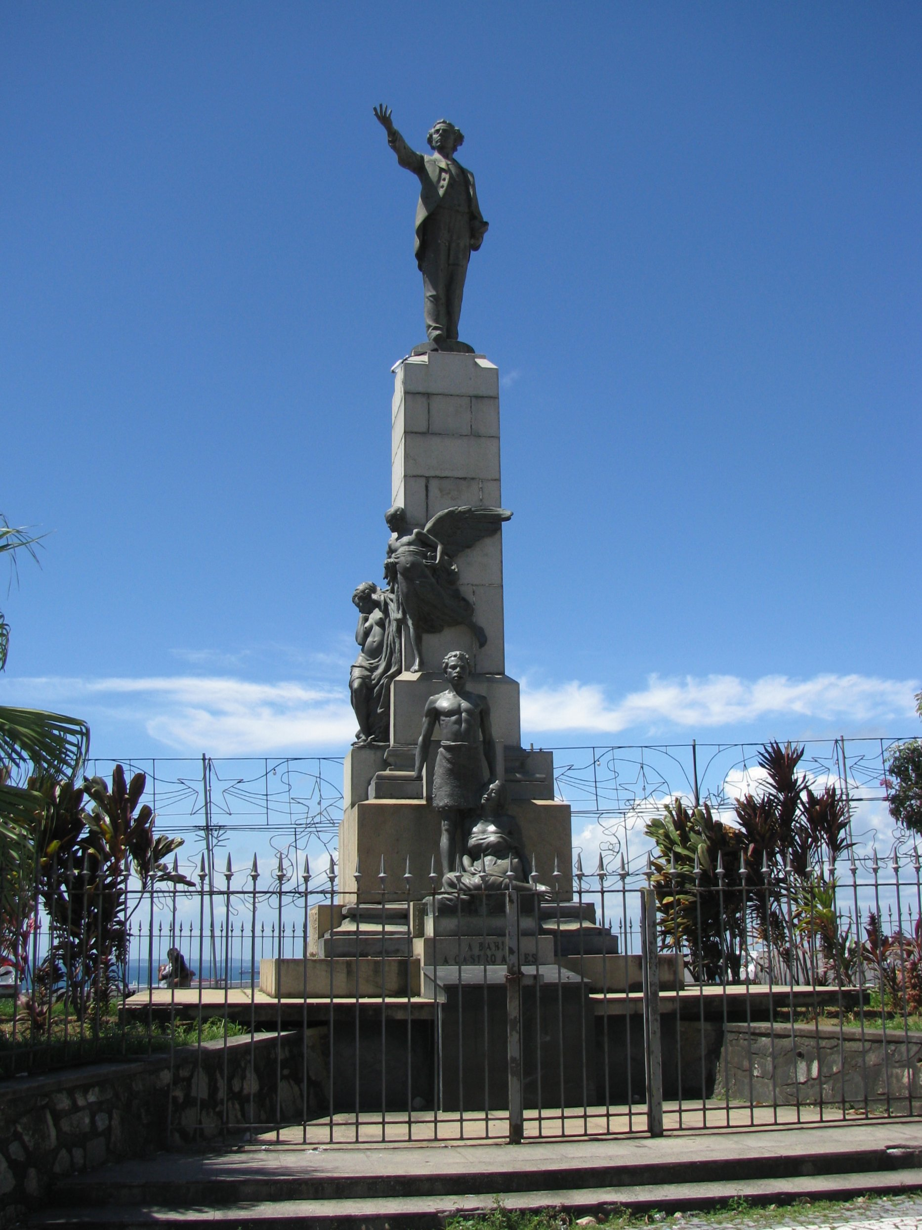 Monument dedicated to poet Castro Alves in Salvador, Bahia, Brazil